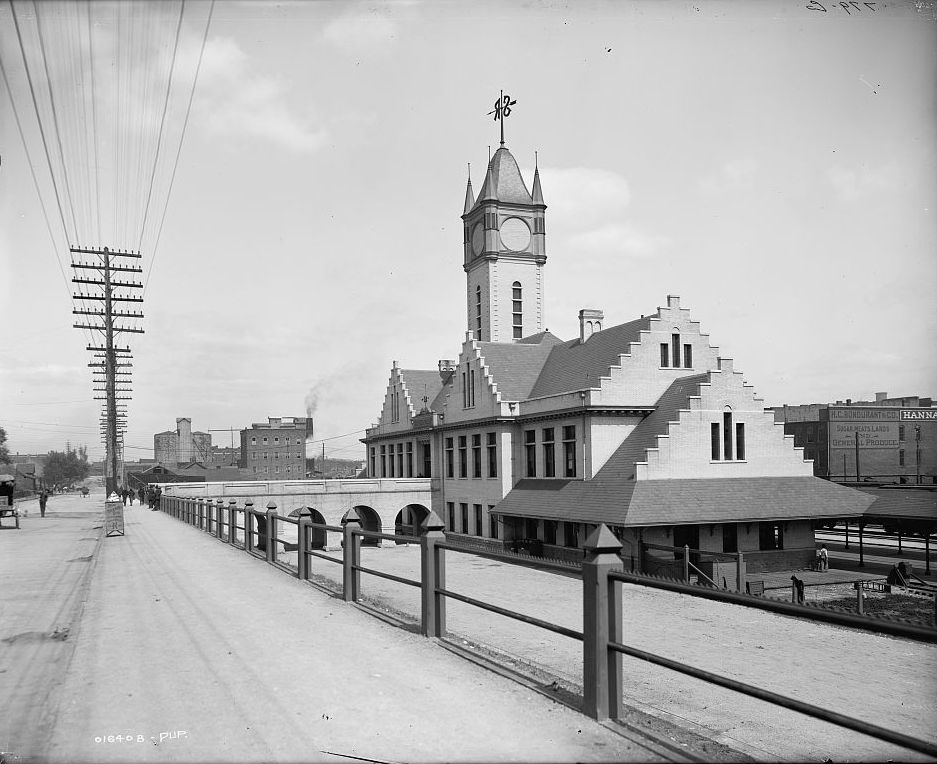 The Southern Railway terminal in Knoxville, Tennessee, USA, photographed in the early 1900s.